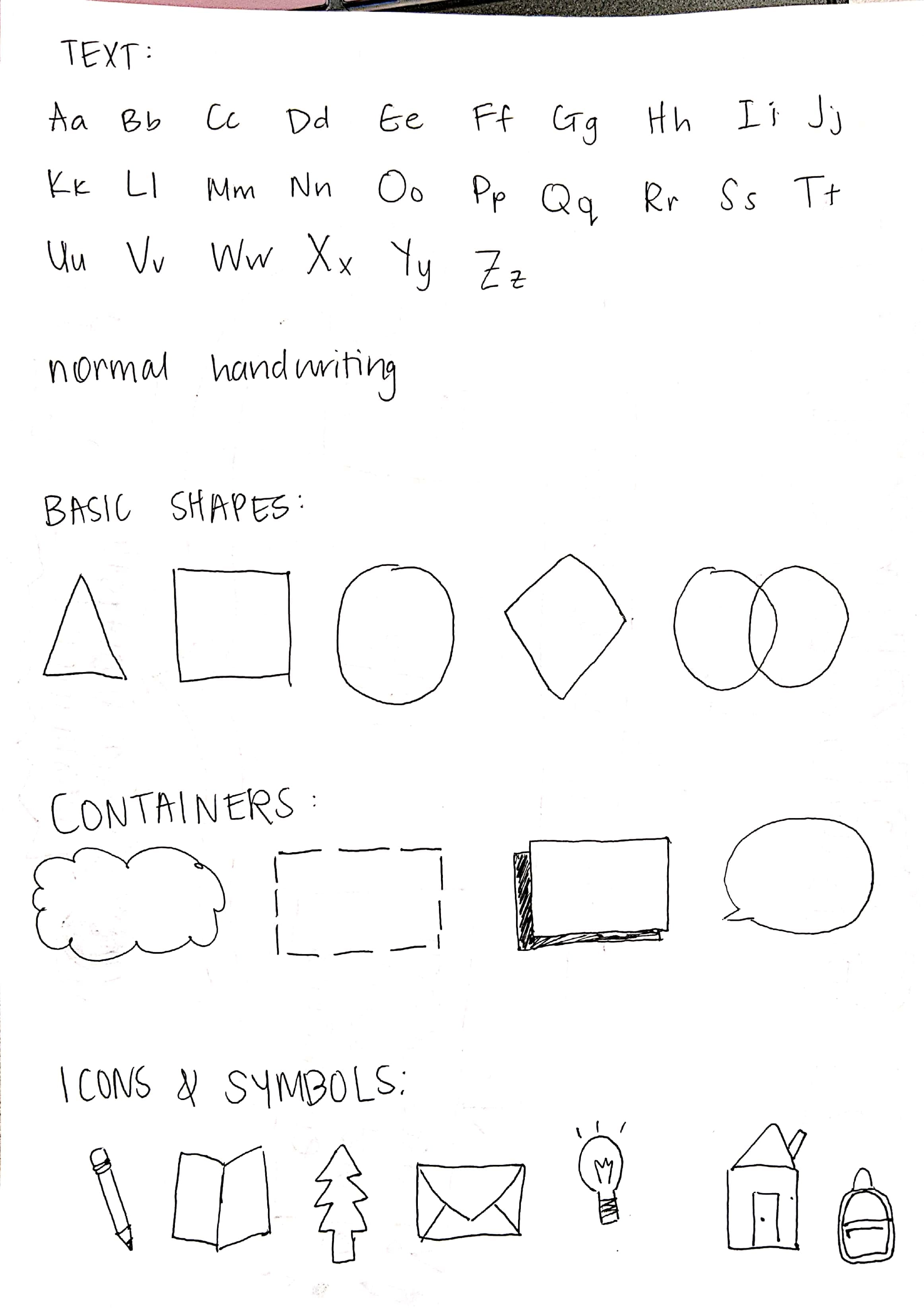 Examples of a few visual elements, including text, basic shapes, containers, and icons and symbols used in sketchnoting.